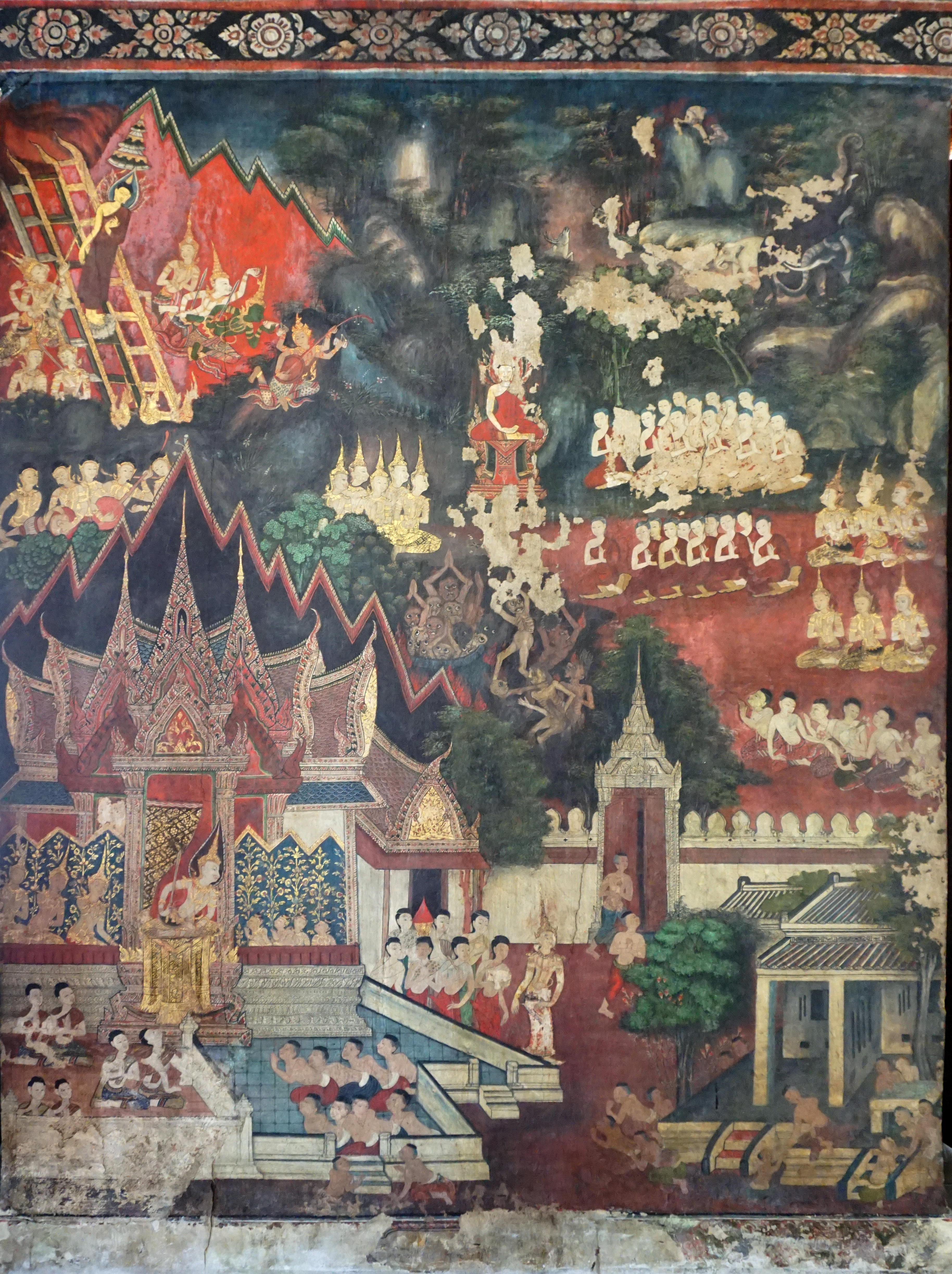 Photograph from the Buddhaisawan Temple, inside the National Museum, Bangkok